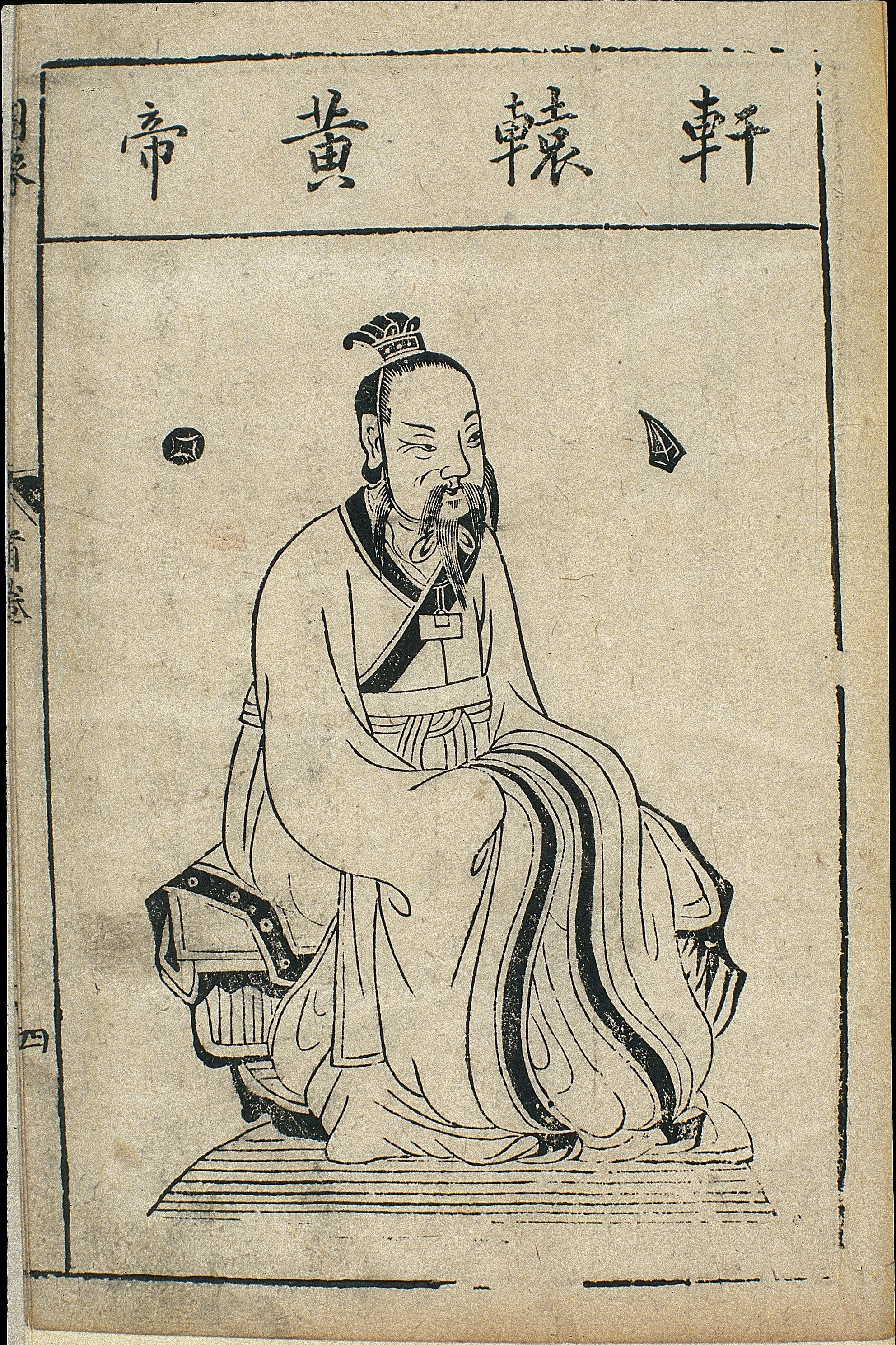 One of a series of woodcuts of illustrious physicians and legendary founders of Chinese medicine from an edition of Bencao mengquan (Introduction to the Pharmacopoeia), engraved in the Wanli reign period of the Ming dynasty (1573-1620) -- Volume preface, 'Lidai mingyi hua xingshi' (Portraits and names of famous doctors through history). The images are attributed to a Tang (618-907) creator, Gan Bozong. The account in 'Portraits and Names of Famous Doctors through History' states: The Yellow Emperor was surnamed Gongsun [Grandfather and Grandson], and his given name was Xuanyuan. The son of the King of Youxiongguo -- the Country that has Bears, he is also known as Youxiong Shi. He became emperor after subduing the wars and violent turmoil at the end of the Divine Farmer's reign. Weapons, boats, the cultivation of silkworms and silk-making, weaving, the calendrical system, Chinese characters, musical modes, mathematics and medicine are all supposed to date from his reign. Huangdi neijing (Inner Canon of the Yellow Emperor) is the earliest extant treatise on medical theory. It contains dialogues between the Yellow Emperor and Qibo. The bibliographic treatise of Houhan shu (History of the Later Han Dynasty) by Ban Gu (32-92 CE) lists other books with titles referring to the Yellow Emperor, e.g. Huangdi waijing (Outer Canon of the Yellow Emperor), Shen Nong Huangdi shiji (Alimentary Prohibitions of the Divine Framer and the Yellow Emperor). Sadly, however, these have not survived.Woodcut By: Gan Bozong (Tang period, 618-907)